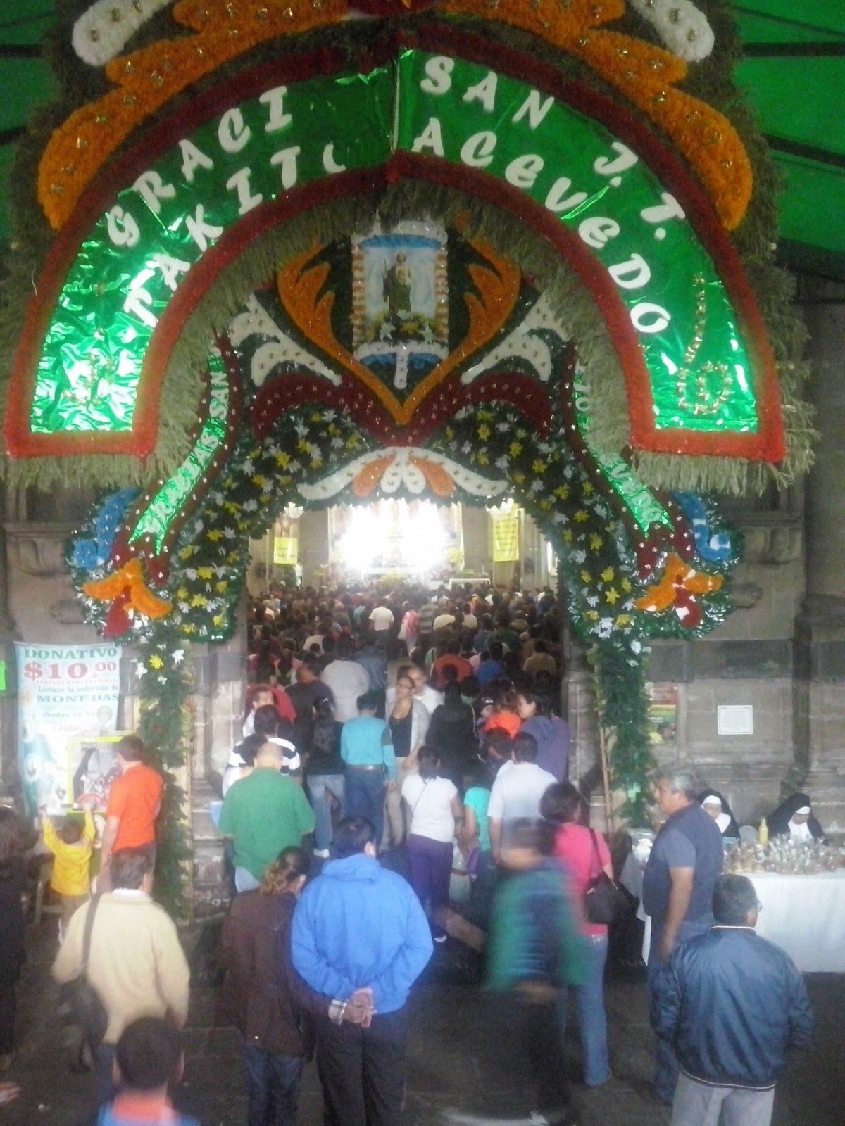 Entrada principal al Templo de San Hipólito durante un domingo en misa.